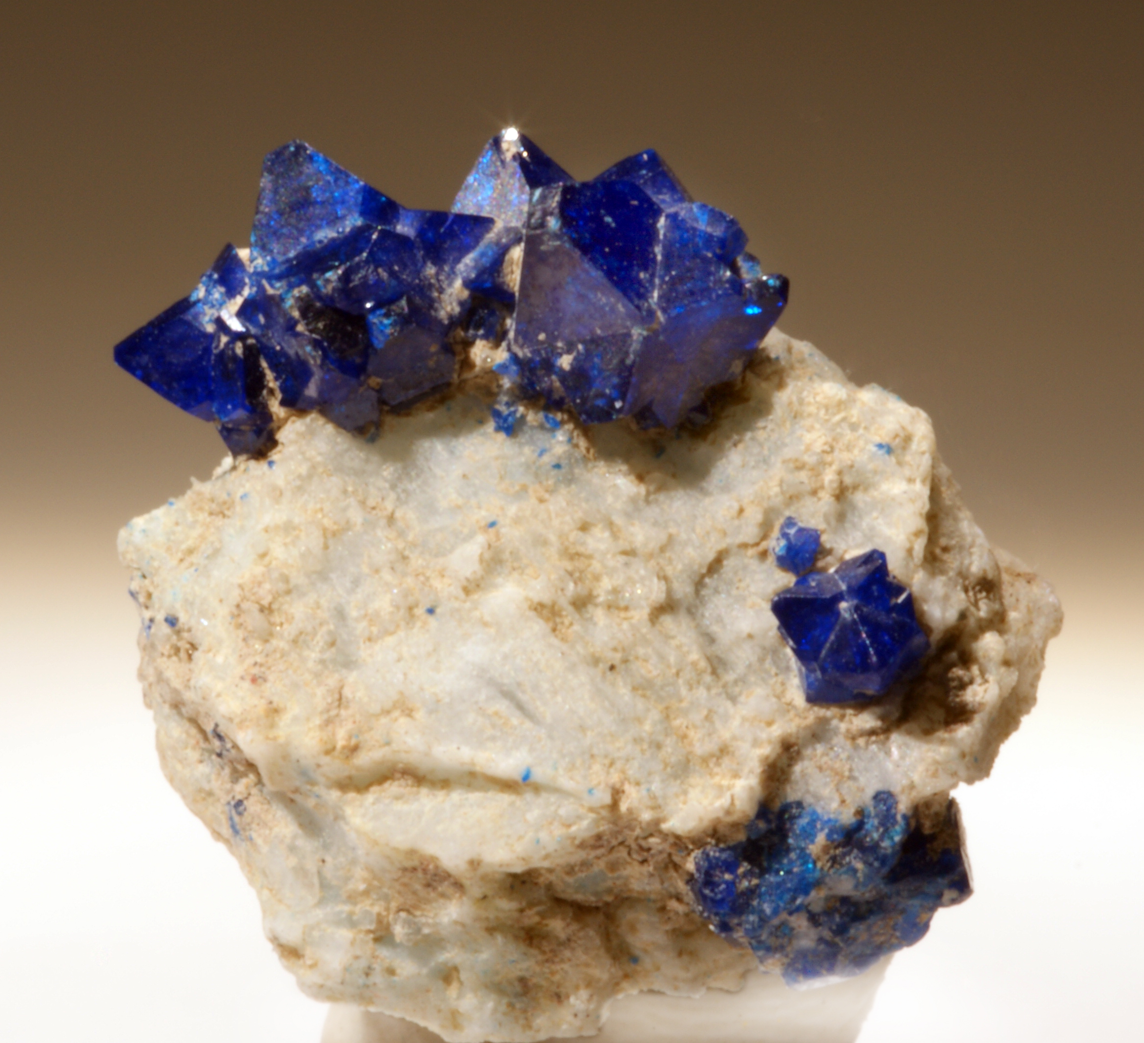 Cumengeite - AMELIA MINE, BOLEO, SANTA ROSALIA, BAJA CALIFORNIA. MEXICO (16x12mm)